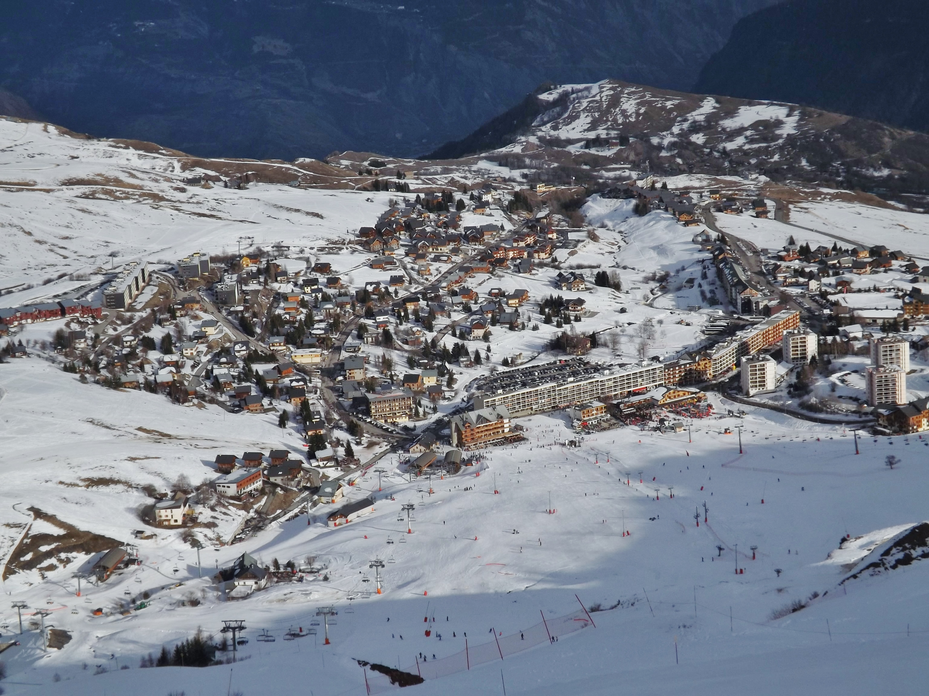 Sight, from the slopes, of La Toussuire village and ski resort (part of Les Sybelles), in Savoie, France.